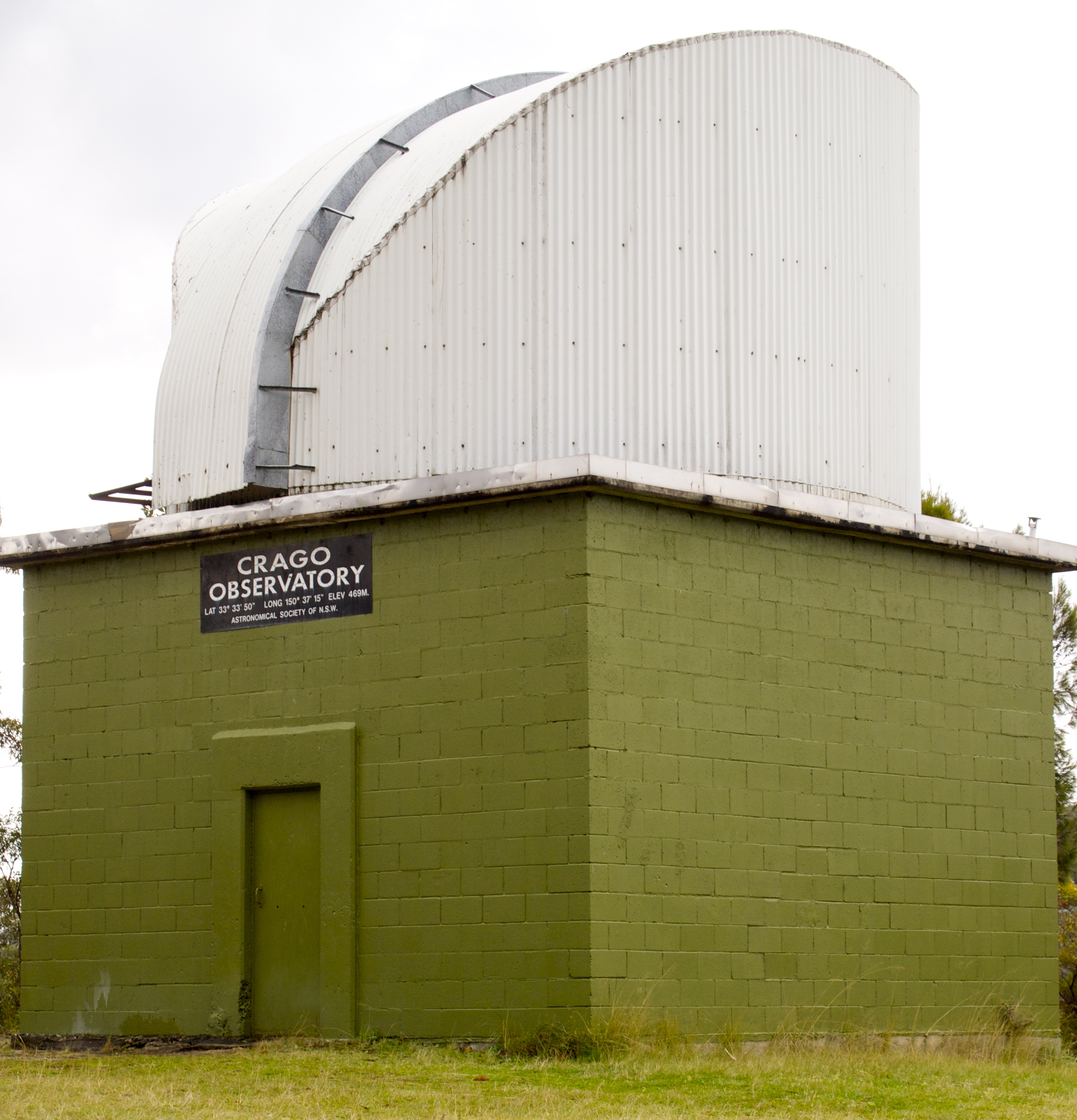 Photograph taken by Ché Kristo at Bowen Mountain. Released to the public domain.